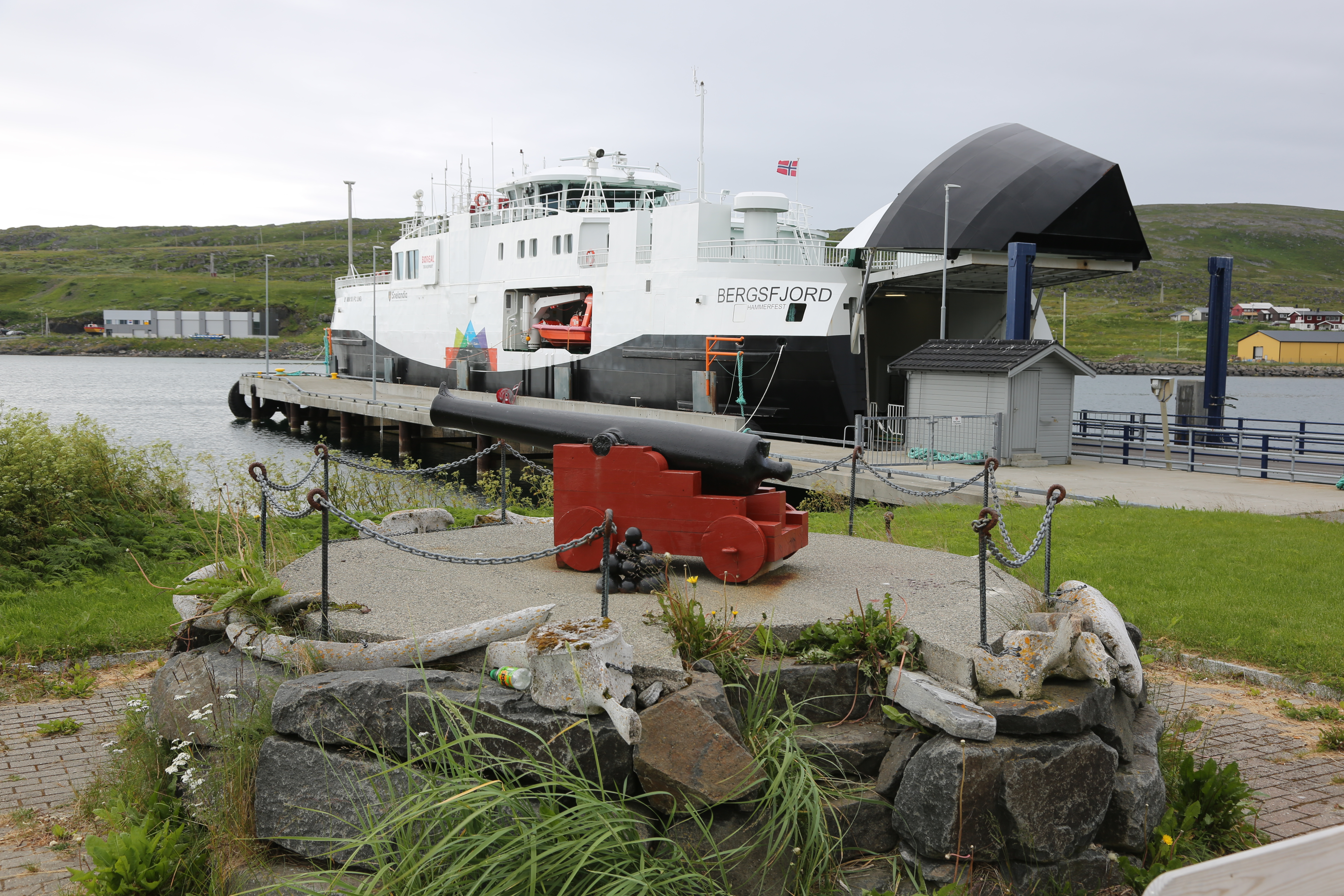 The ferry MF «Bergsfjord» at Hasvik, Hasvik kommune, Finnmark.